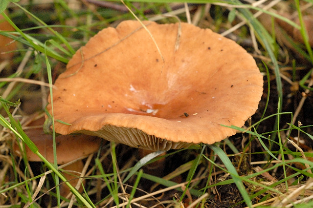 Lactarius spec. from Commanster, Belgium. The determination of the species shown in this picture has been verified.